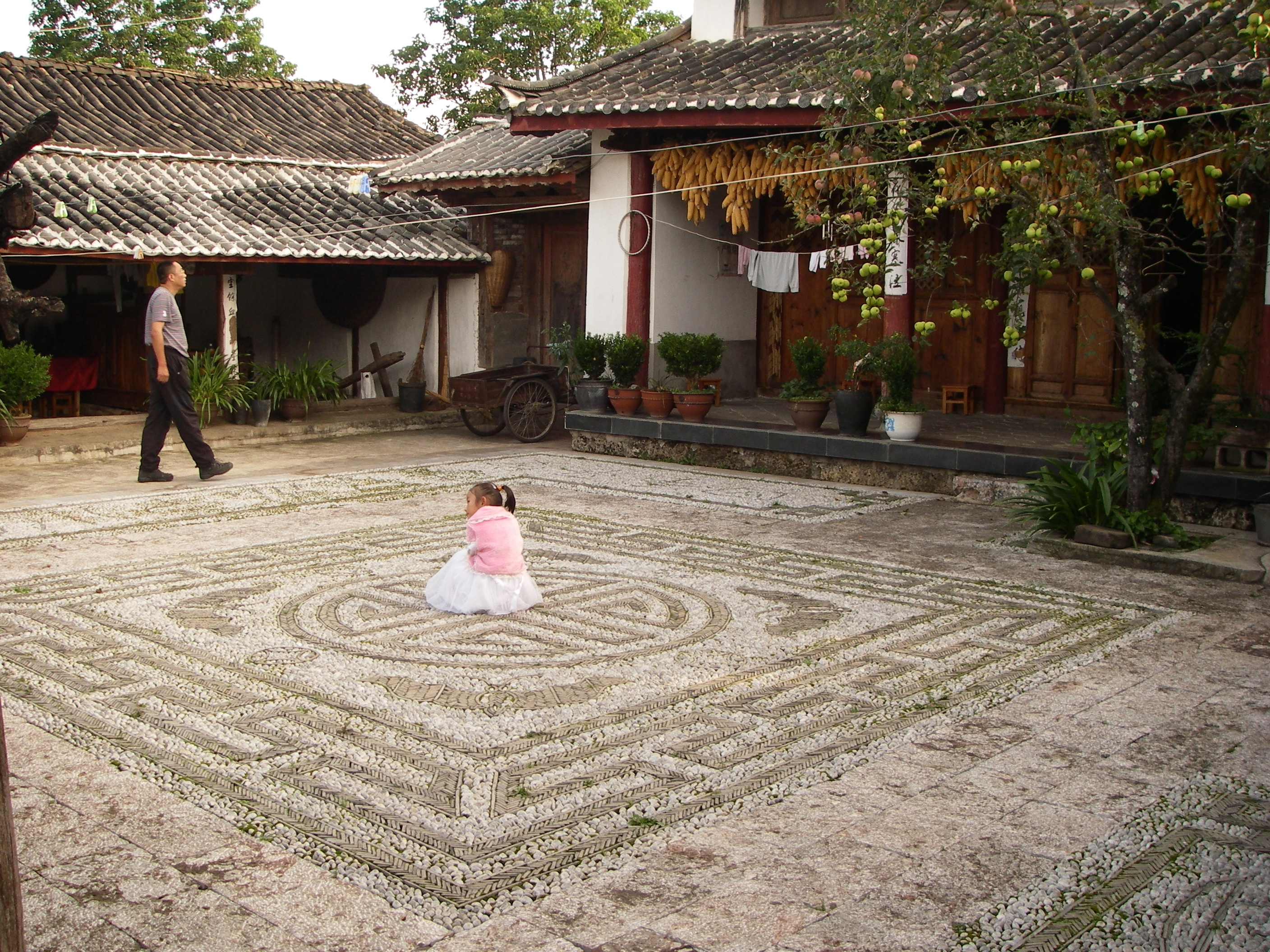 Old guest-house in Li Jiang, Yunnan, PRC (China). Built around the beginning of the 20th century. The motifs and scripts made by pebble mosaic represent ancient Naxi beliefs in symbols and writing. The building on the right is for accommodation and on the left an implement shed. Behind the photographer is further accommodation and kitchen and to the left of the photographer is the external wall and gate.